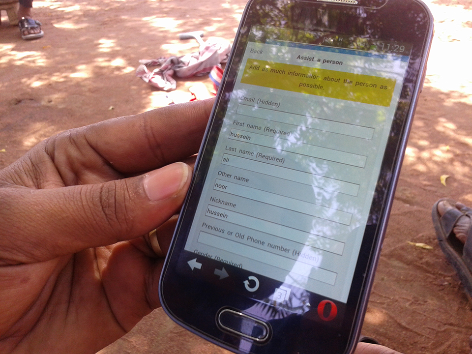 Volunteer helping beneficiary sign up for REFUNITE platform via mobile app